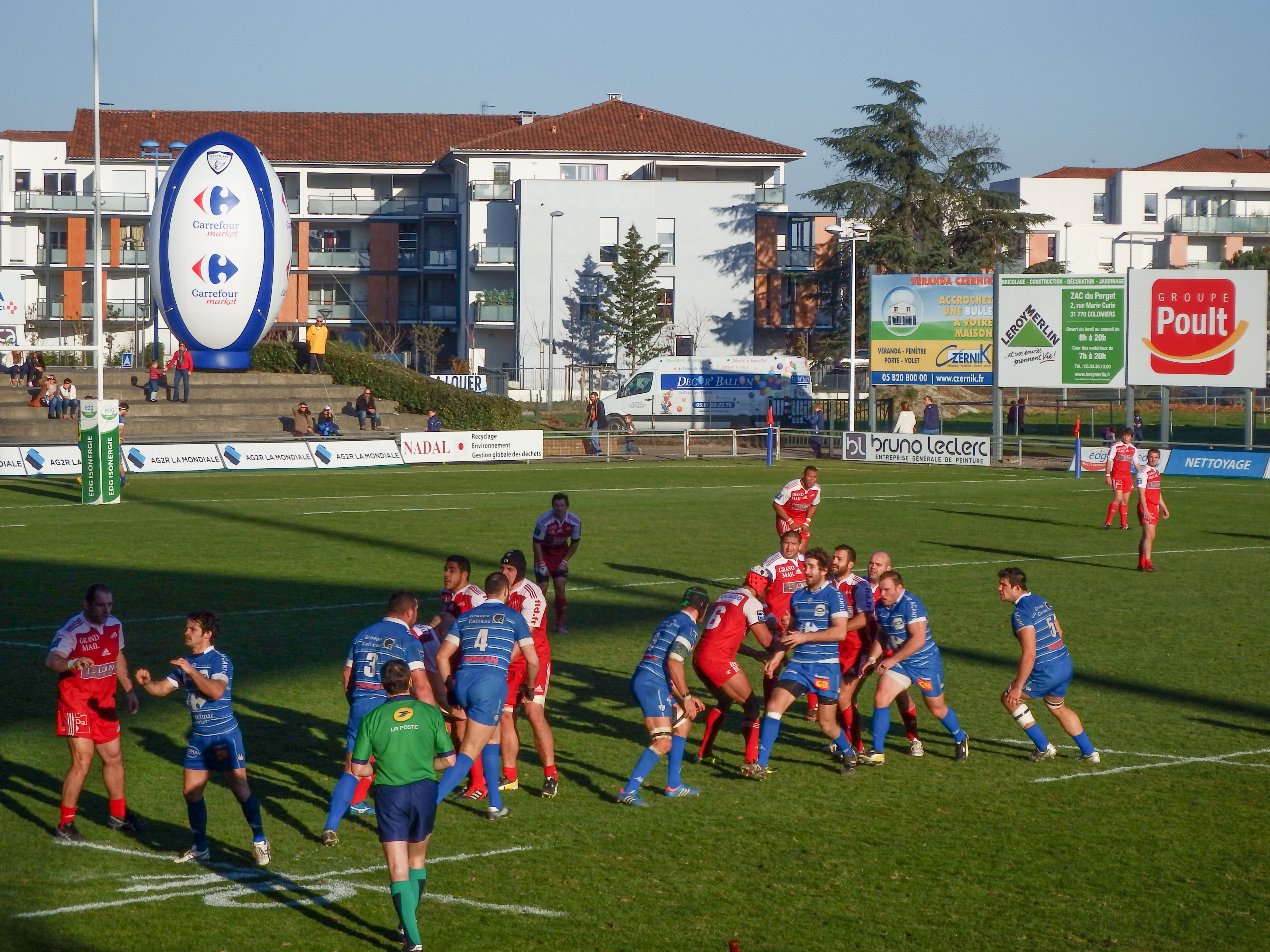 Pro D2 2013-2014 — 12 January 2014, Stade Michel-Bendichou. Match between: Colomiers rugby — US Dax